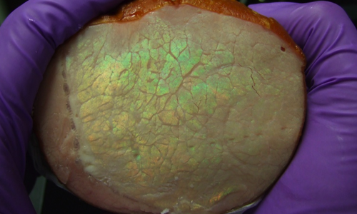 Iridescent meat: Photo of smoked pork loin showing iridescence.